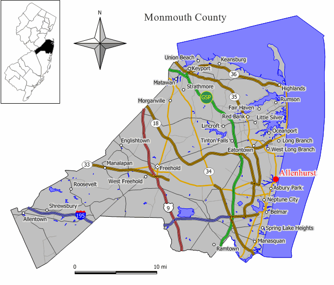 Source: Jim Irwin